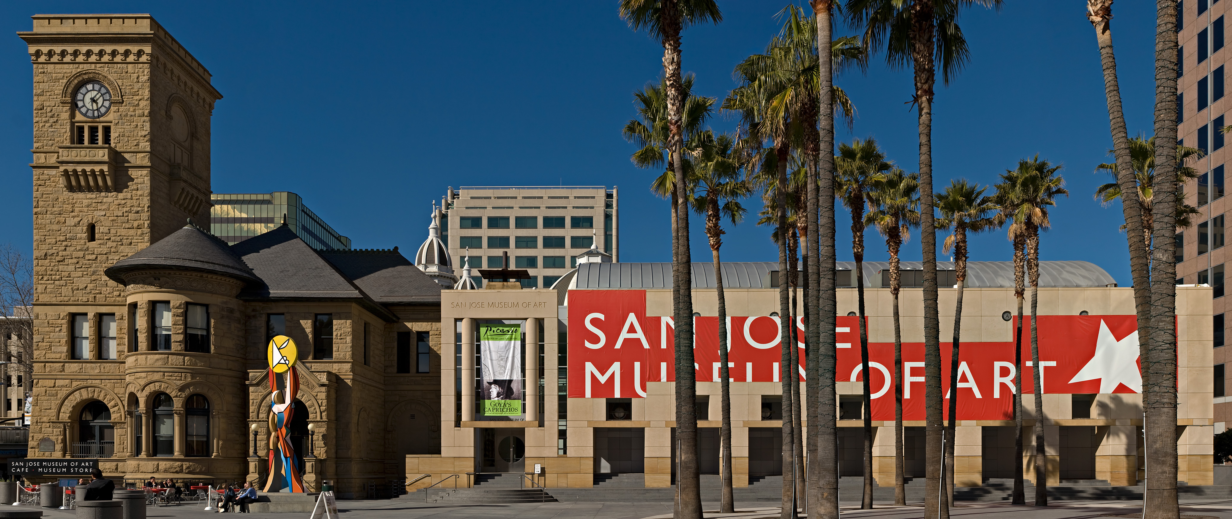 The San Jose (California) Museum of Art. The tower on the left was San Jose's first post office in 1892 and is now on the National Register of Historic Places.